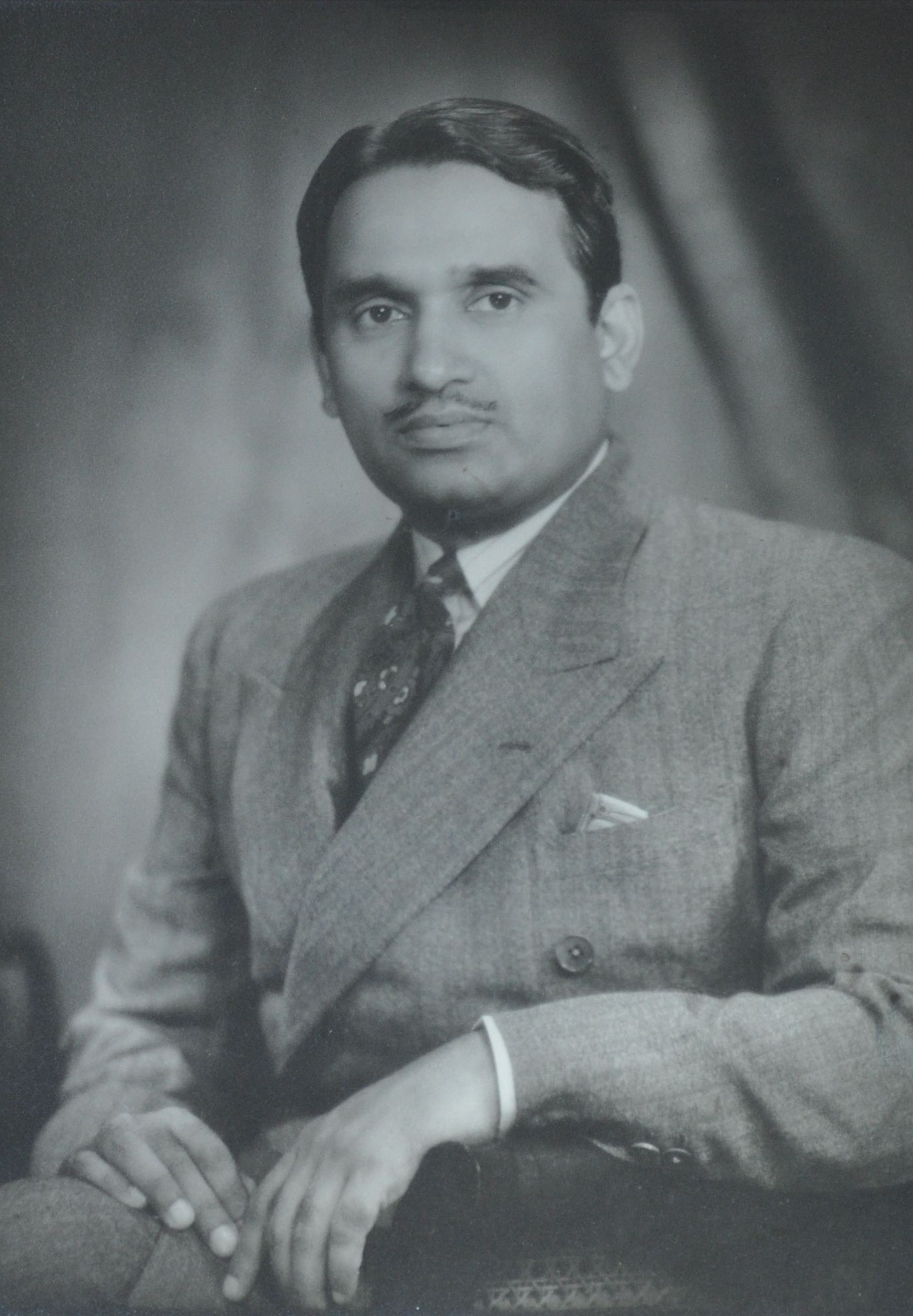 kd mahadik